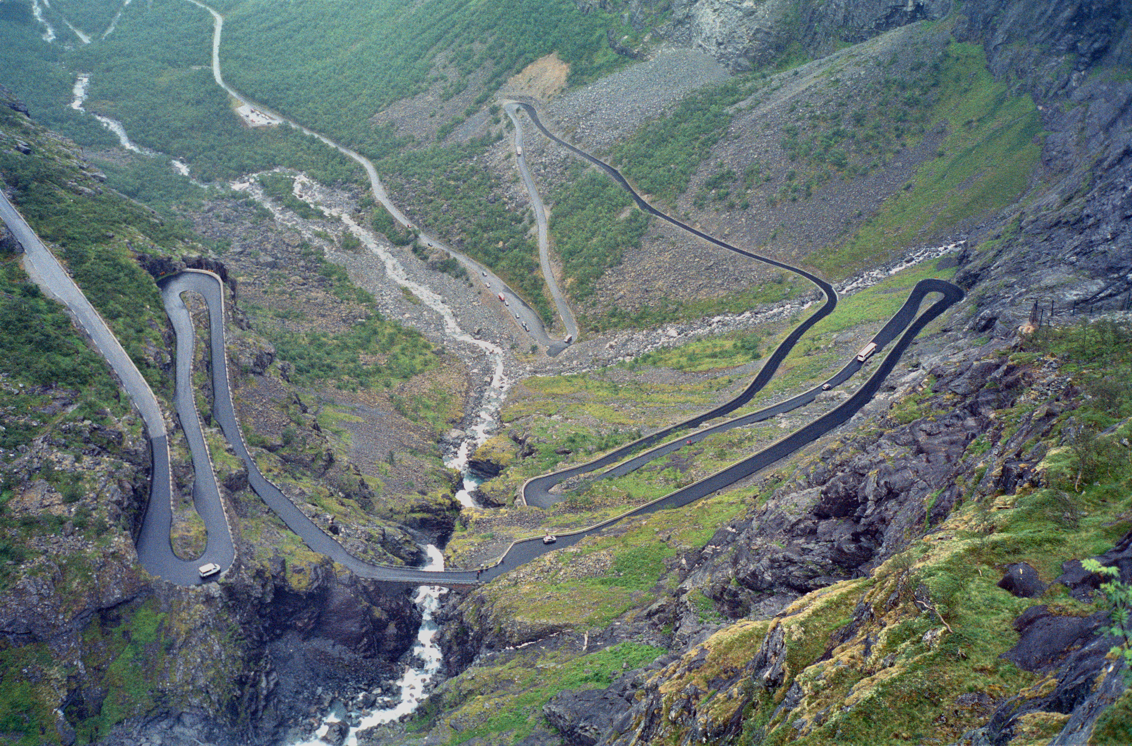 Trollstigen road, Norway, August 2004. Two curves (bends) were later redesigned.